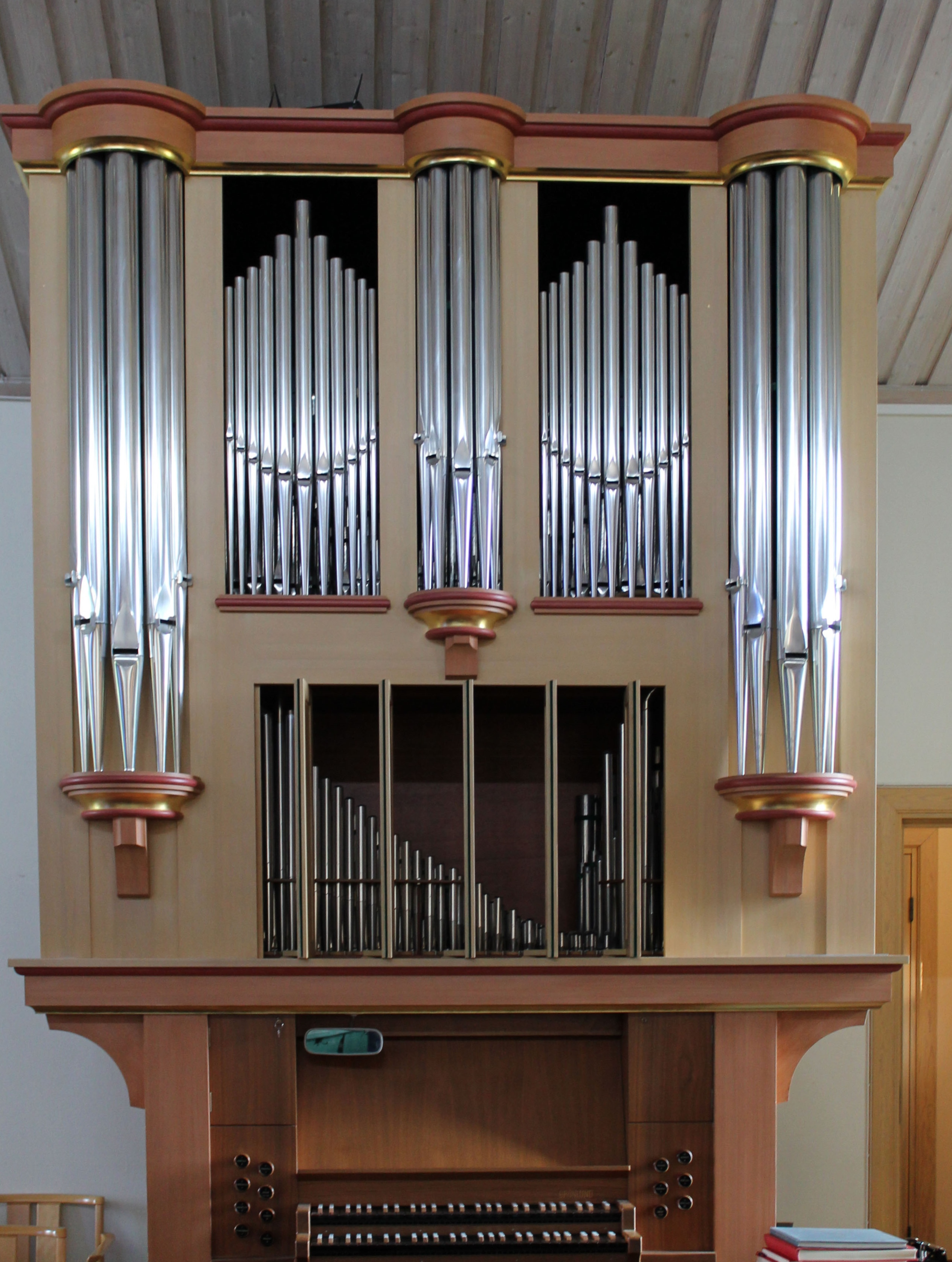 Hälleberga Church.Organ.